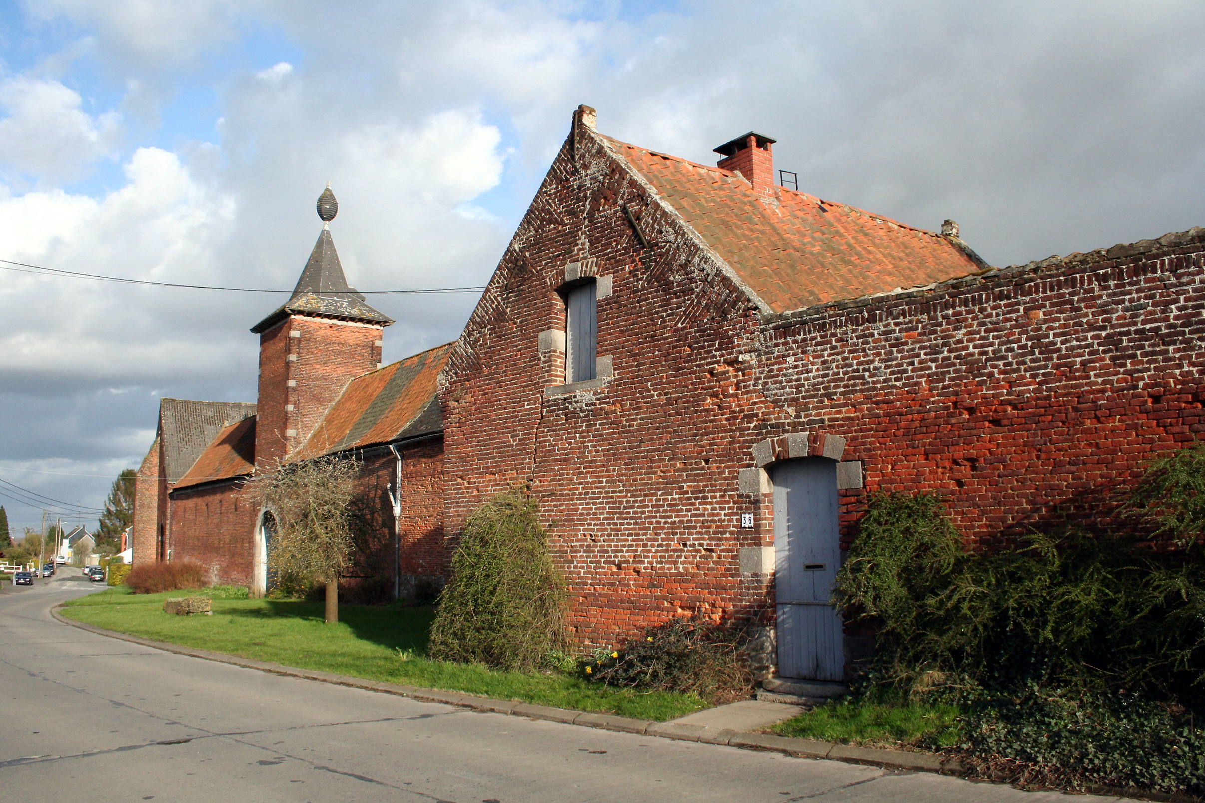 Rebaix (Belgium), the Chevalier farm (1742).